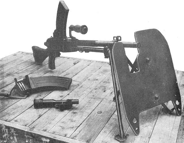 Type 99 (1939) armor shield, size 12 in.x16 in., with the Type 96 (1936) 6.5-mm light machine gun. While these shields are suitable for use in the open, specimens, constructed from what appears to be face-hardened plate, have been found built into the weapon ports of pillboxes. Two sizes have been recovered, the larger measuring 14 by 20 by 1/4 inches (fig. 293) and the smaller 12 by 16 by 1/4 inches. Tests have shown that these shields will resist penetration by .30 caliber ball ammunition at 100 feet. However, some damage may be caused by flaking (chipping). These shields have been penetrated readily by .30 caliber AP ammunition. Figure 292 from the Handbook On Japanese Military Forces.